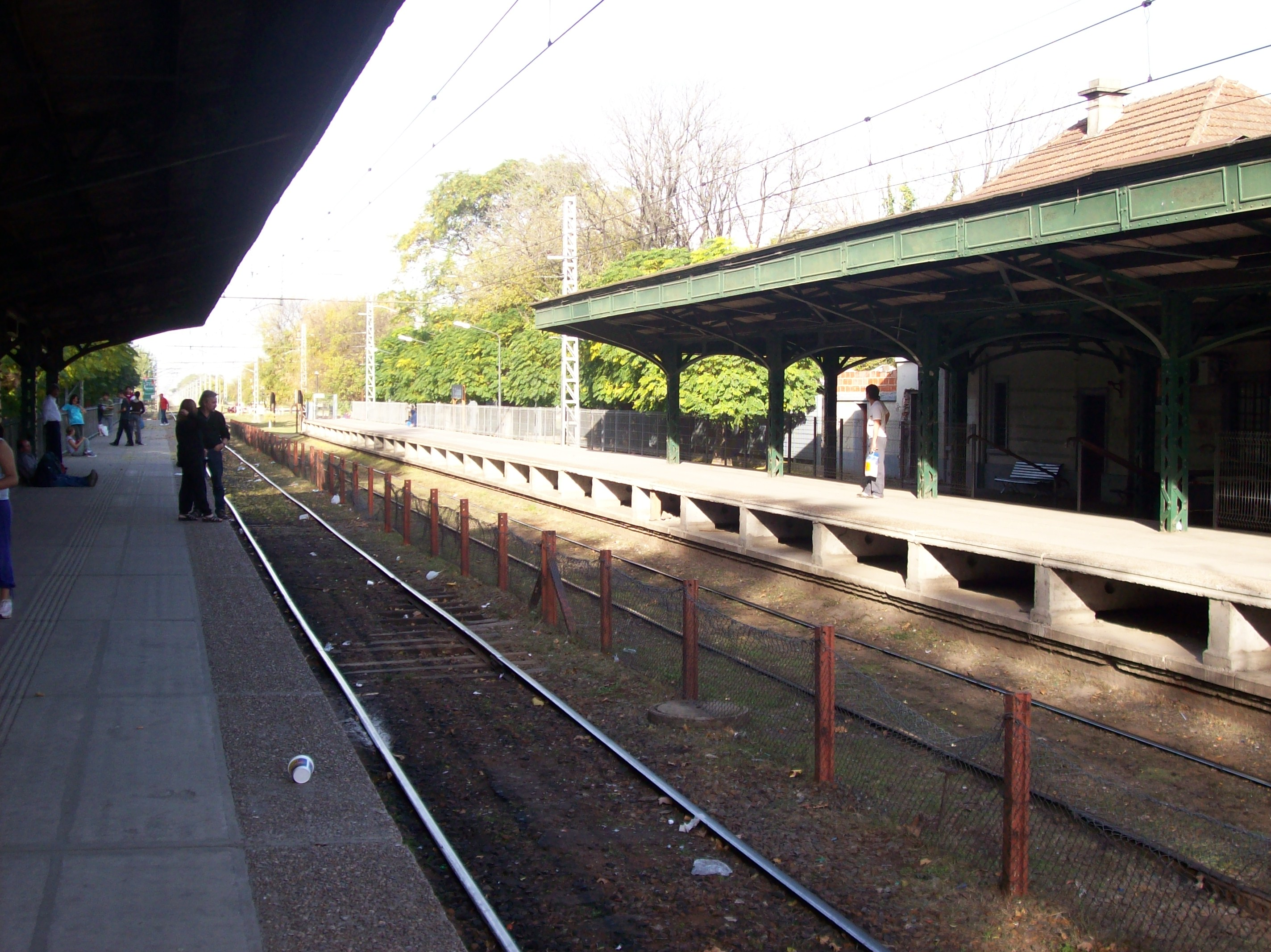 Rafael Calzada train station, in Buenos Aires province, Argentina.